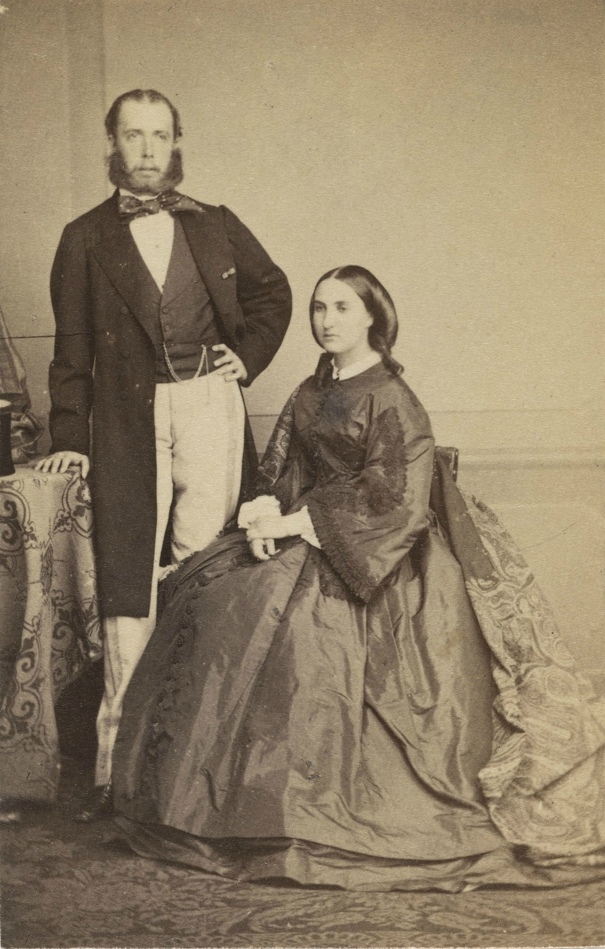 Emperor Maximilian I and Empress Carlota of Mexico